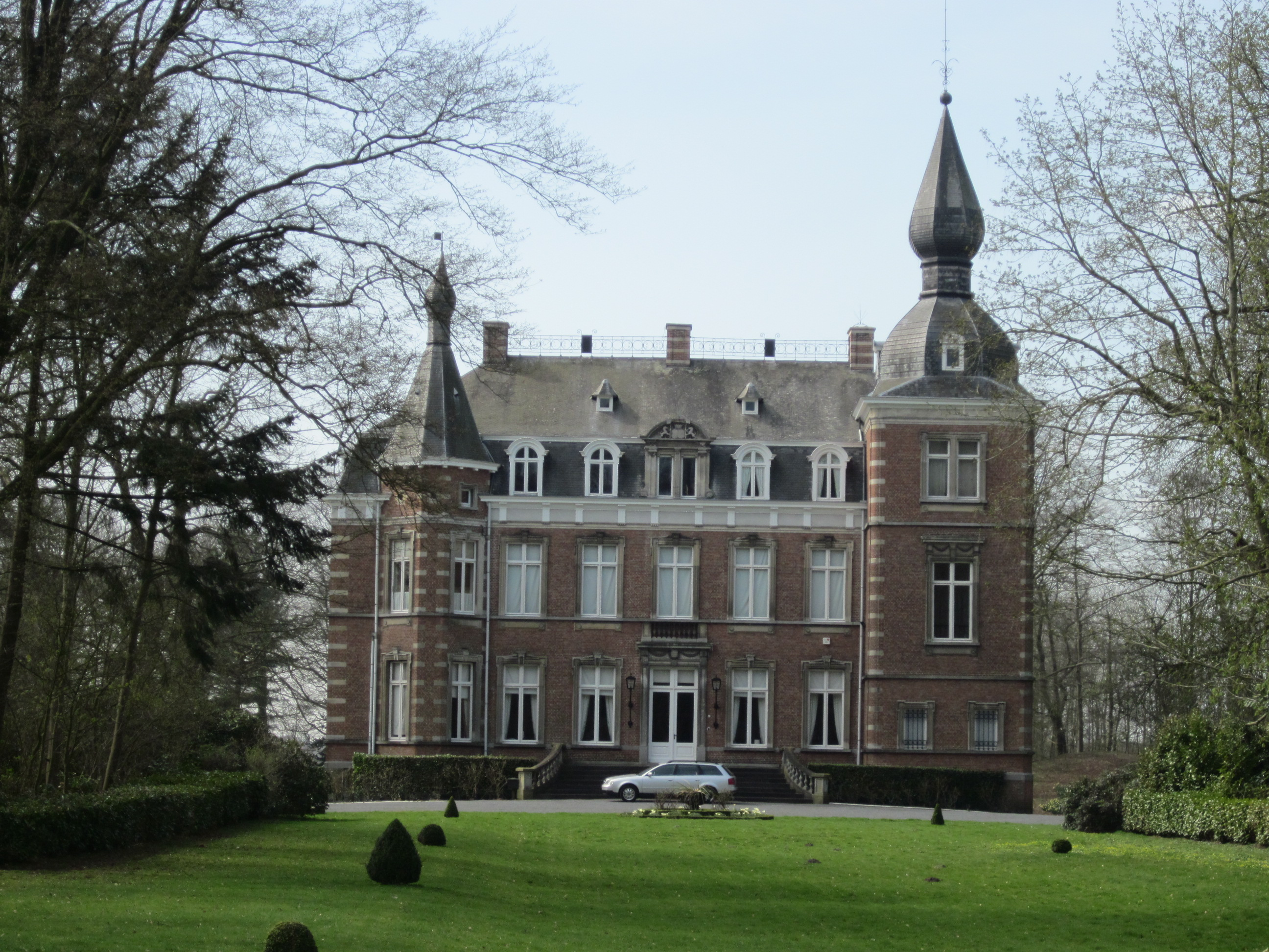 'Pecsteen' Castle in Ruddervoorde, Belgium